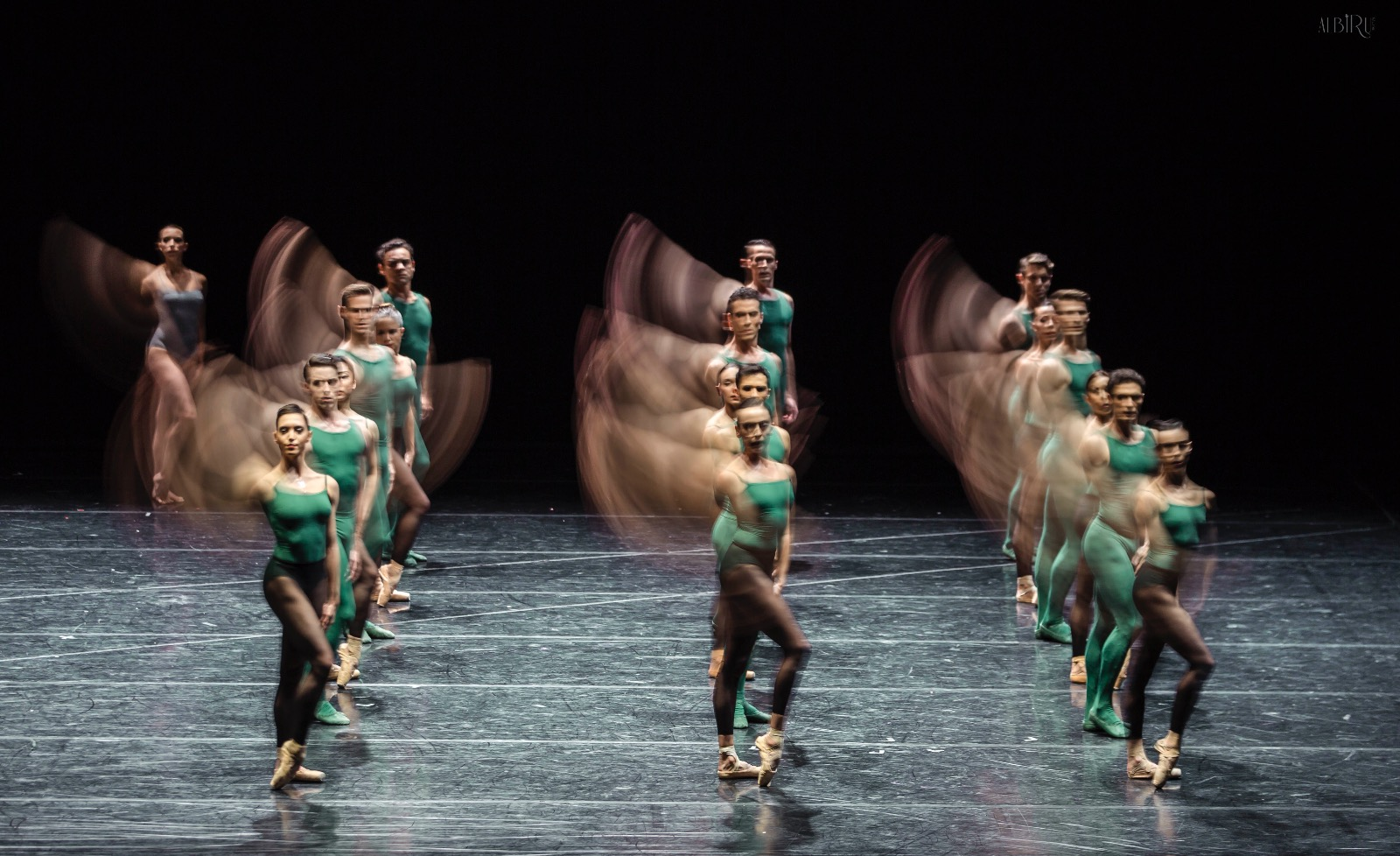 Cast from the Compañía Nacional de Danza during its representation of Artifact II Photograph by Alba Muriel